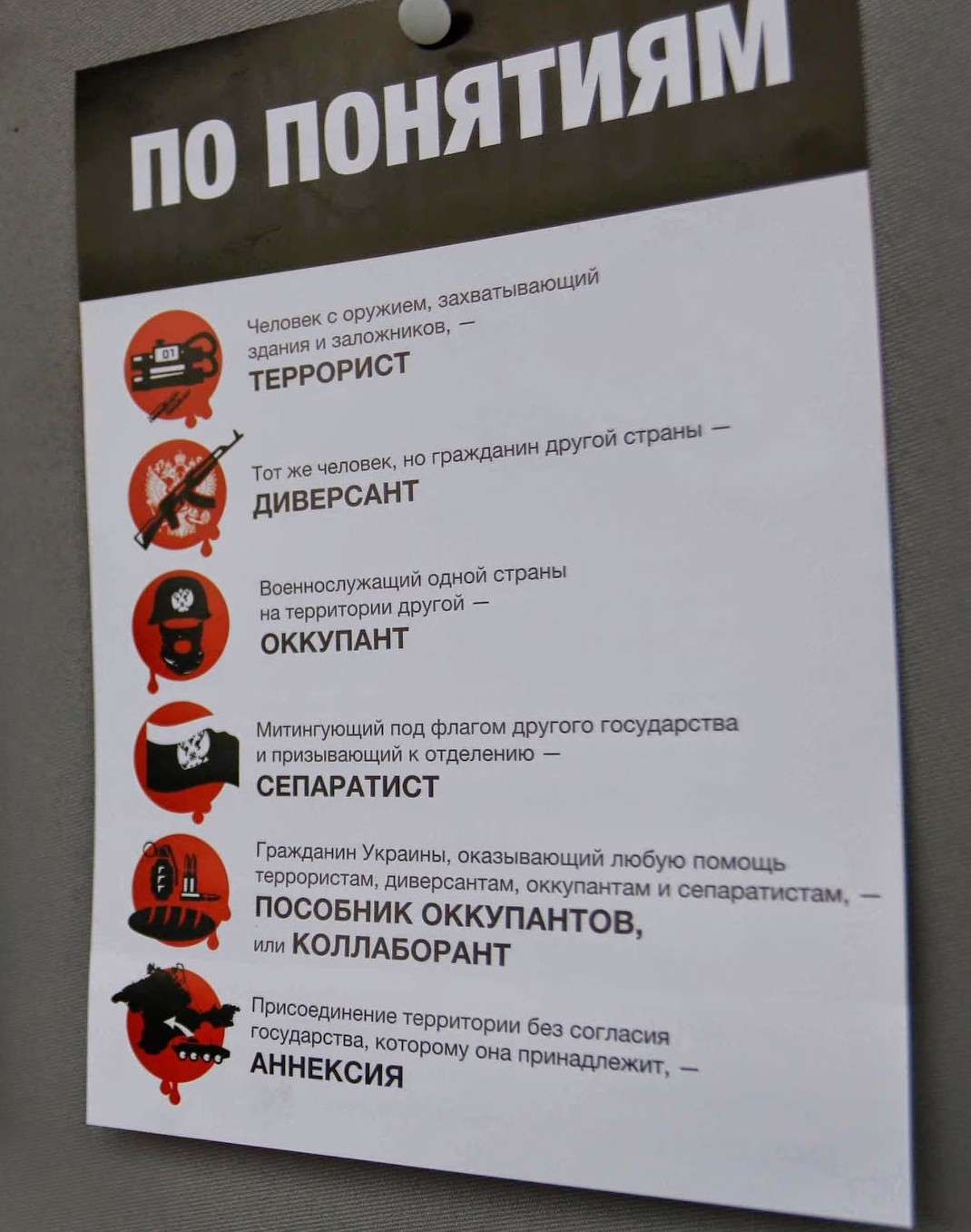 Ukrainian government flyer in Sloviansk, July 9, 2014.